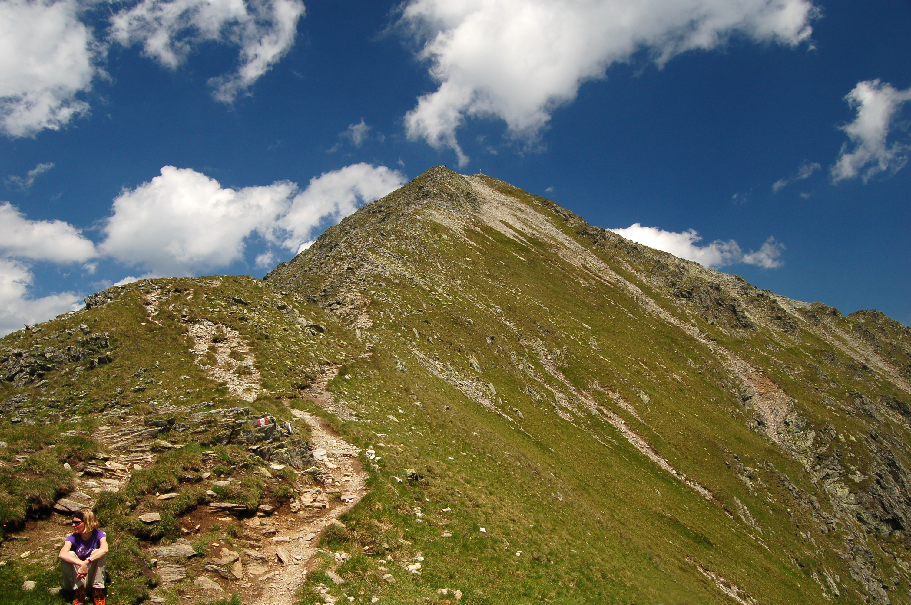 Großer Bösenstein, SW ridge